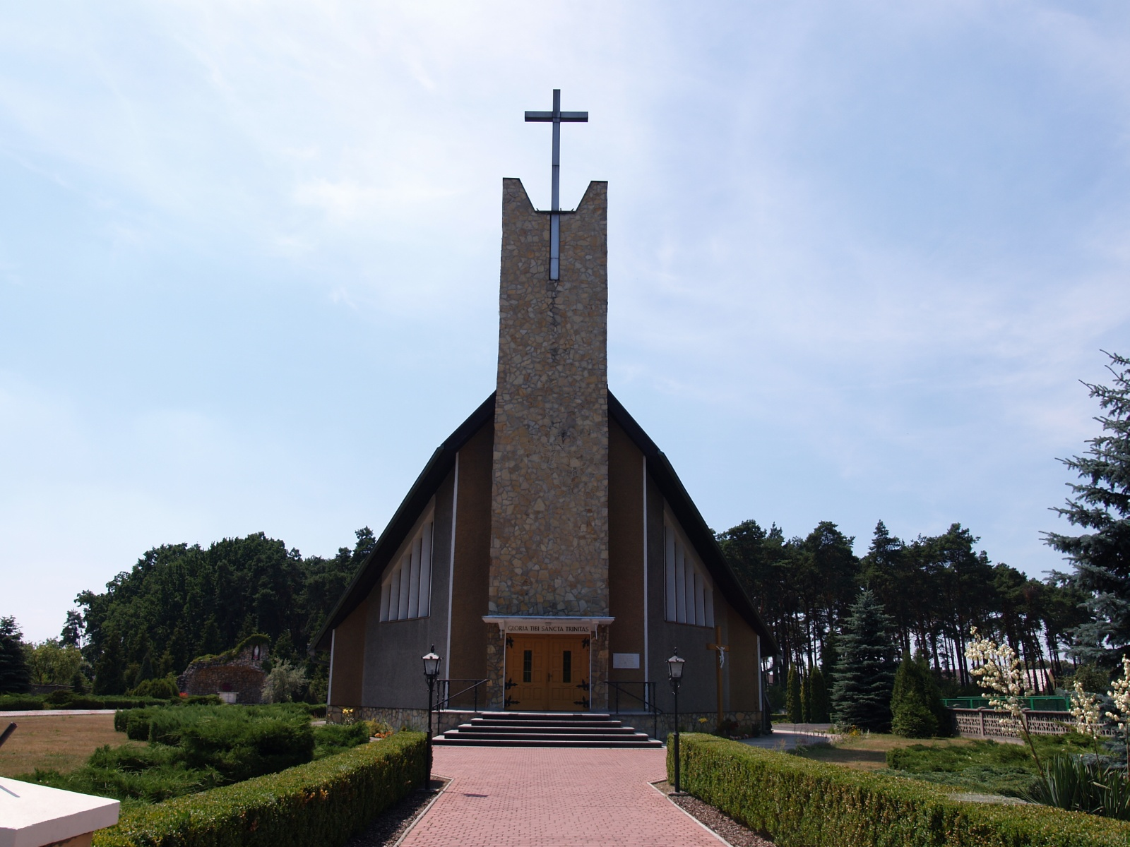 Holy Trinity church in Chorula, Poland (blessed by Cardinal Ratzinger - pope Benedictus XVI.) in 1983